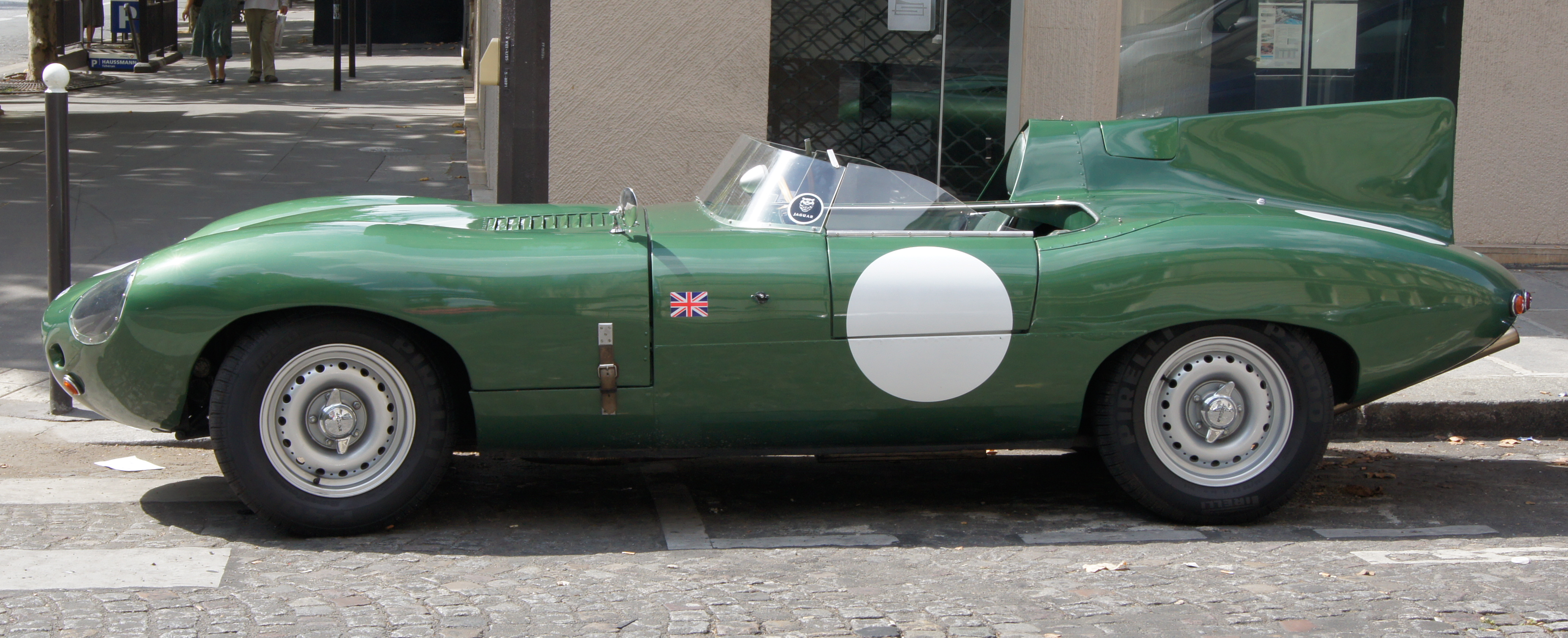 jaguar D-type, Paris, august 2010